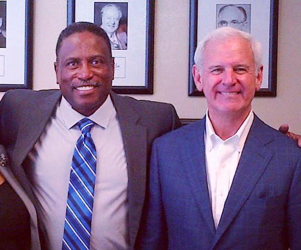 I met with incoming #Prichard Mayor Jimmie Gardner this morning to talk about his priorities and ways we can work together.